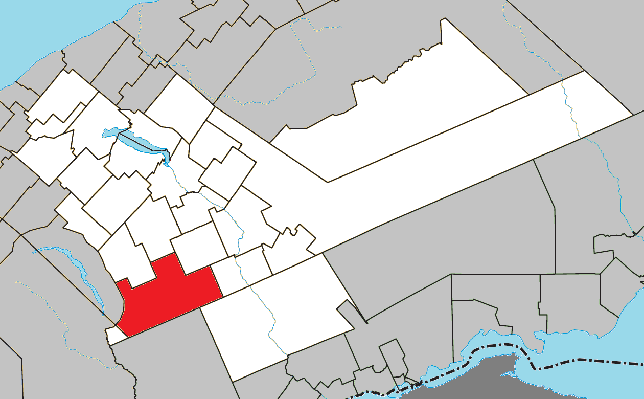 Location of Rivière-Vaseuse, Quebec within La Matapédia Regional County Municipality.